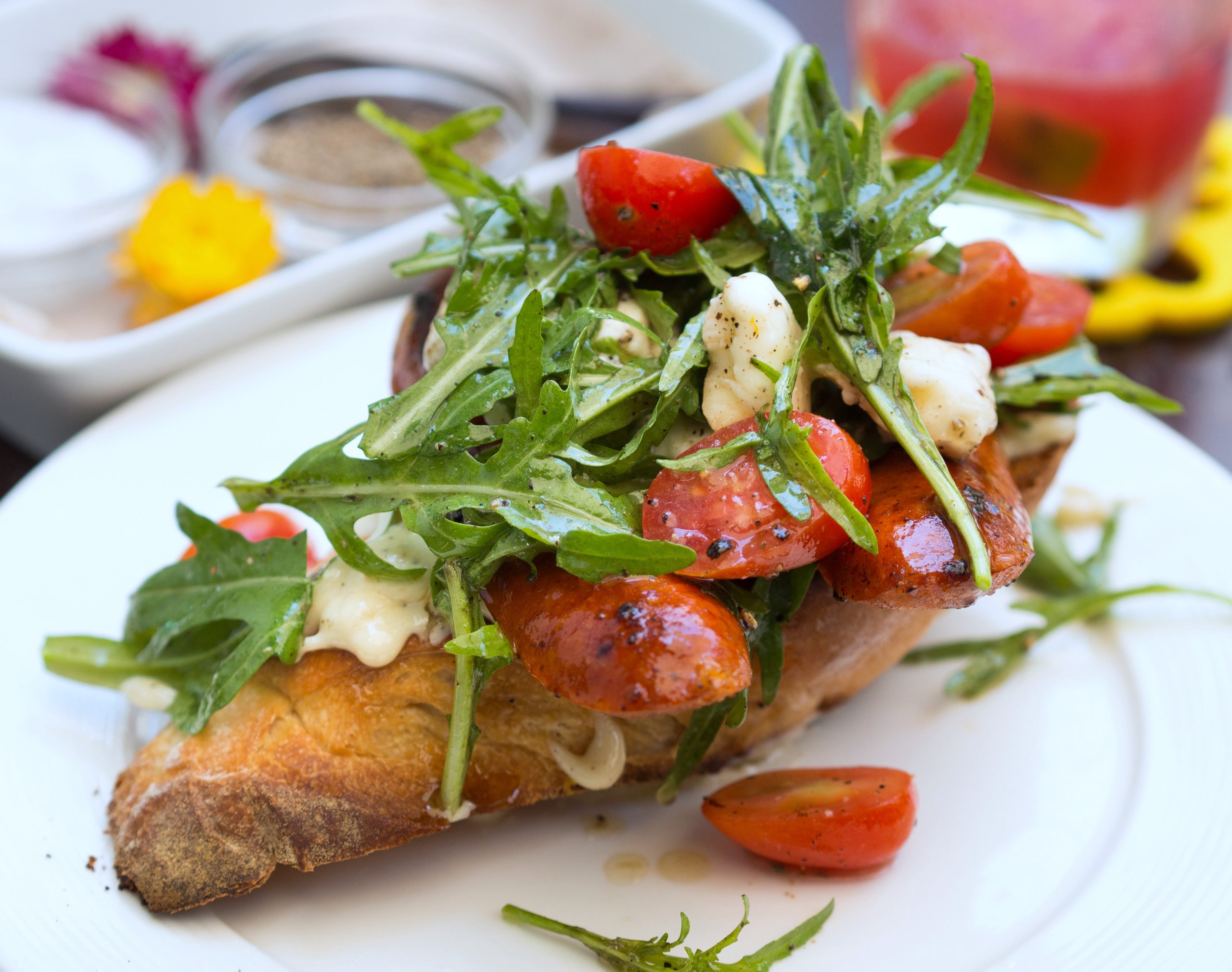 An open sandwich of toasted baguette with Gorgonzola, grilled chorizo, rocket salad, and tomatoes